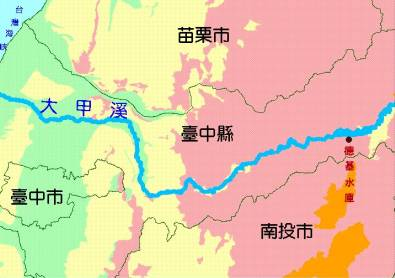 DA-CHA RIVER